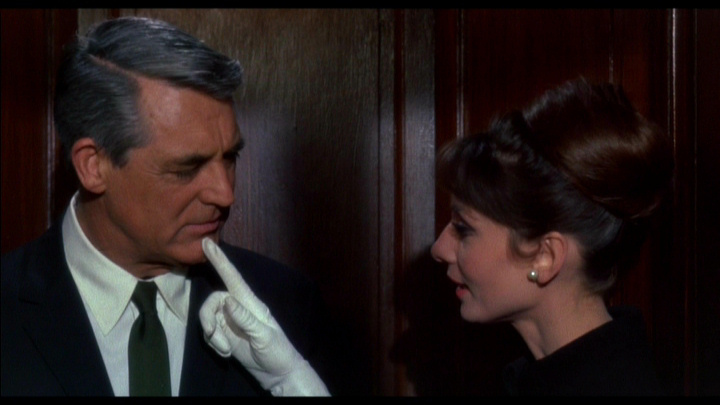 Screenshot of Cary Grant and Audrey Hepburn from the film Charade